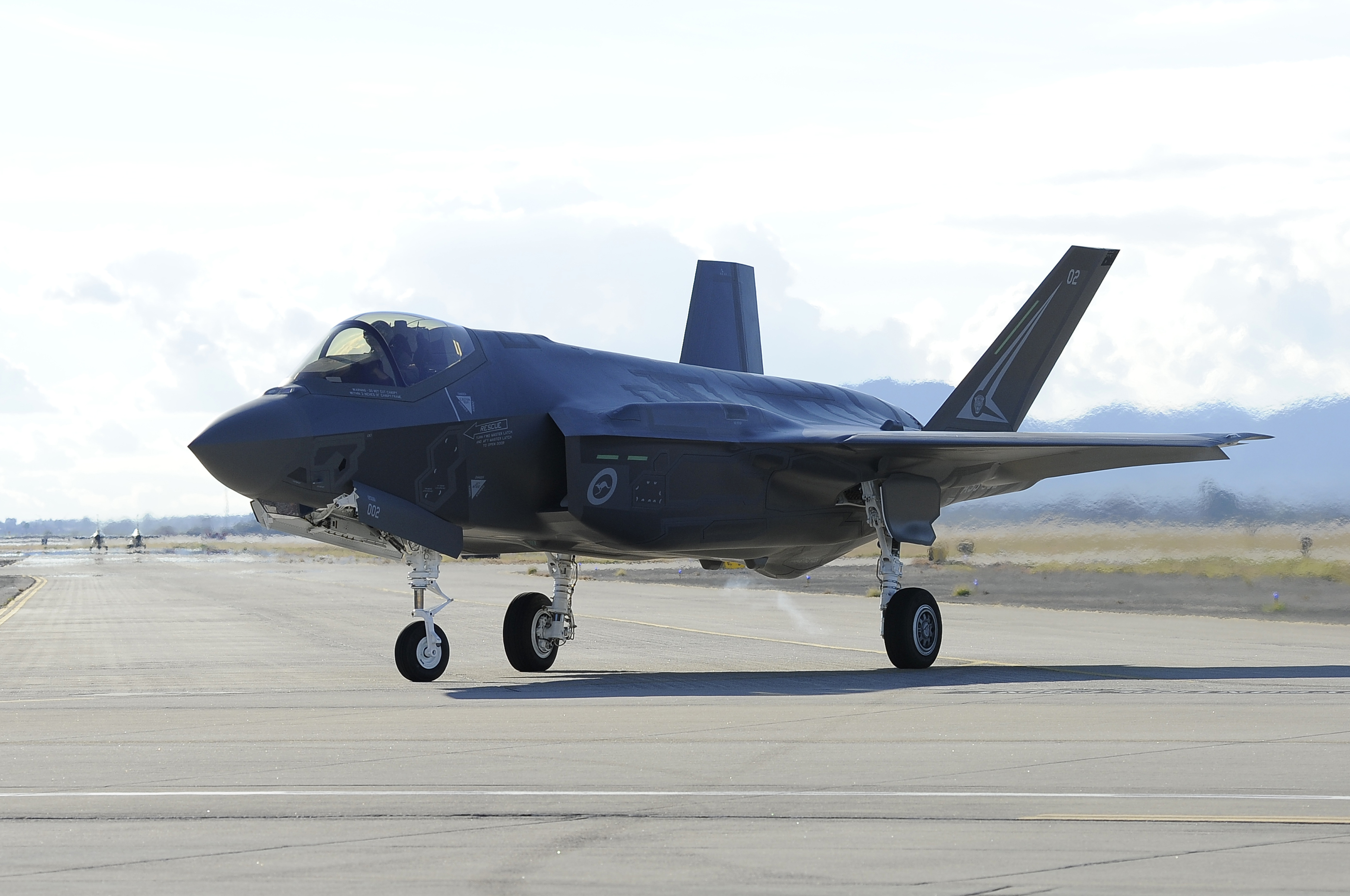 The first Royal Australian Air Force F-35A Lightning II jet arrived at Luke Air Force Base Dec. 18, 2014. The jet’s arrival marks the first international partner F-35 to arrive for training at Luke.